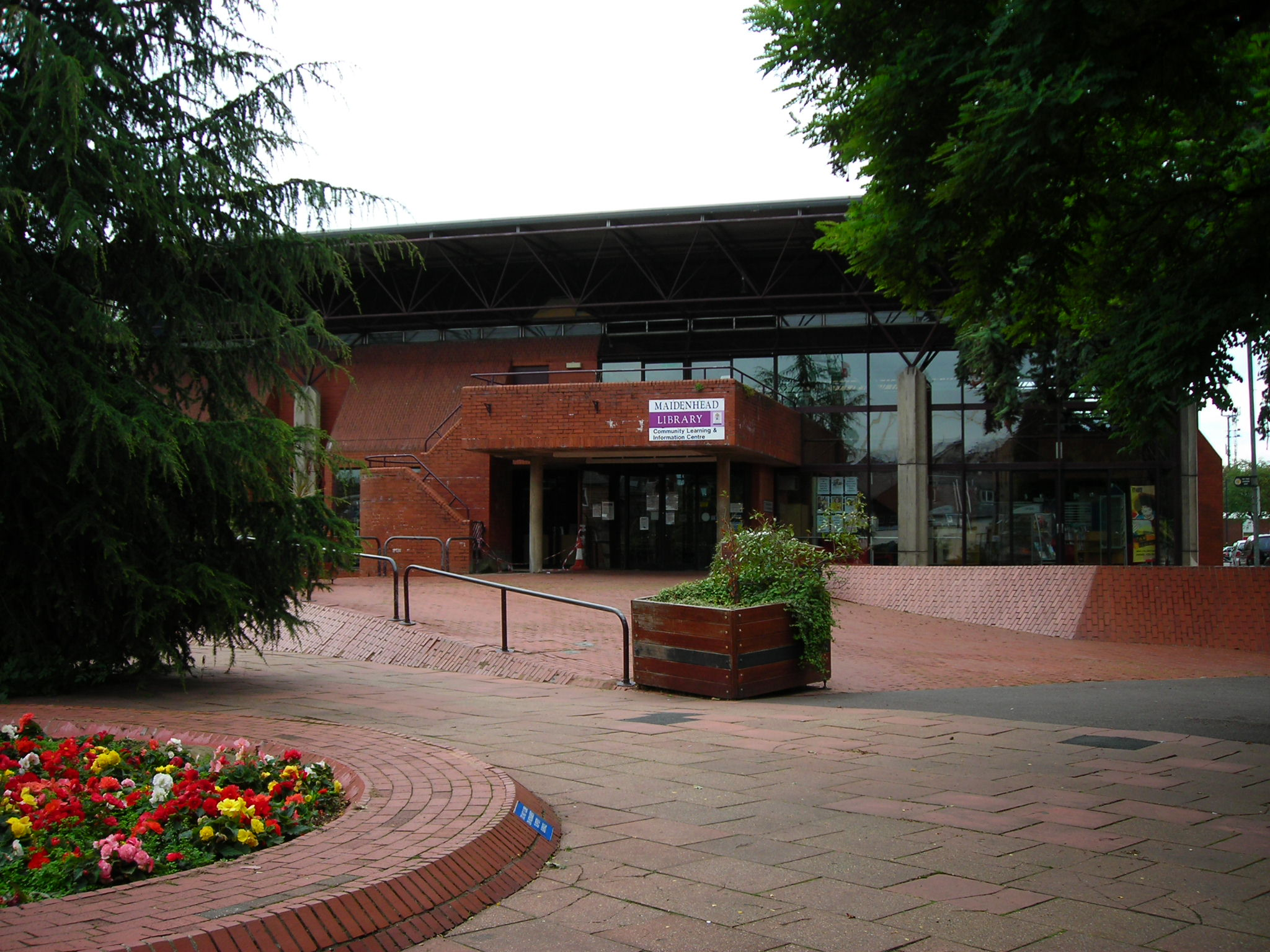 Maidenhead library, Berkshire, England